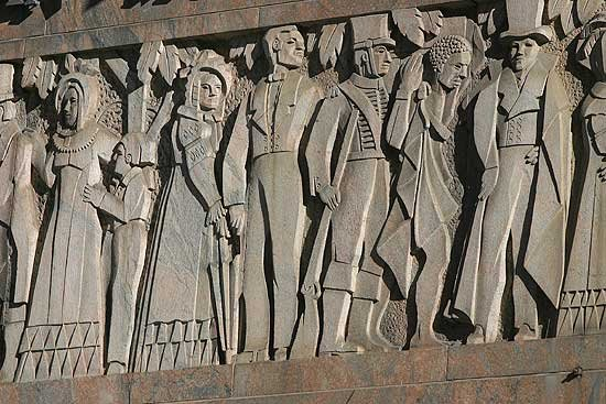 A portion of the frieze on the Mutual Building in Darling Street in Cape Town, South Africa